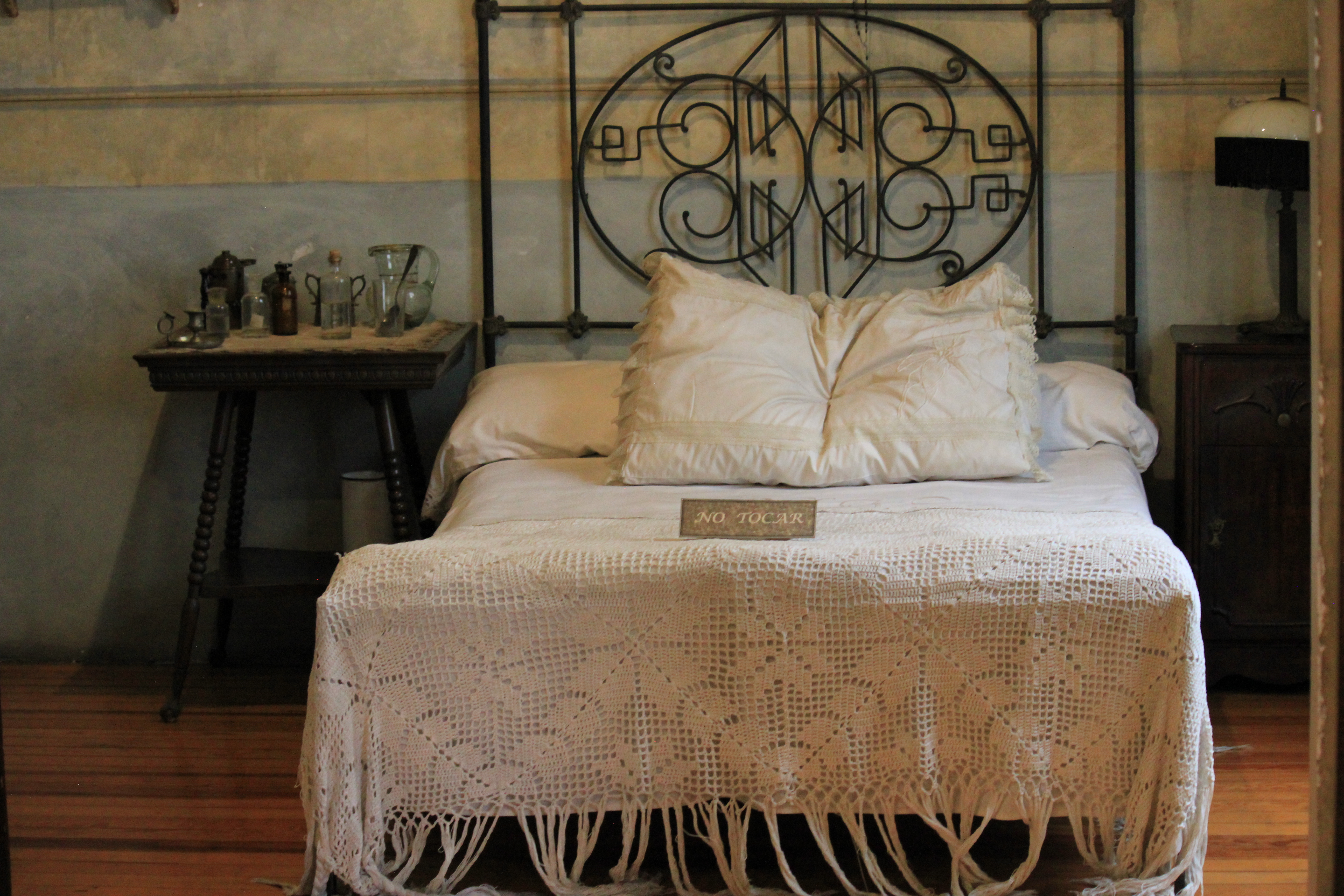 Ramón López Velarde´s bedroom located in The Museum "La Casa del Poeta Ramón López Velarde" in Colonia Roma, Mexico City.